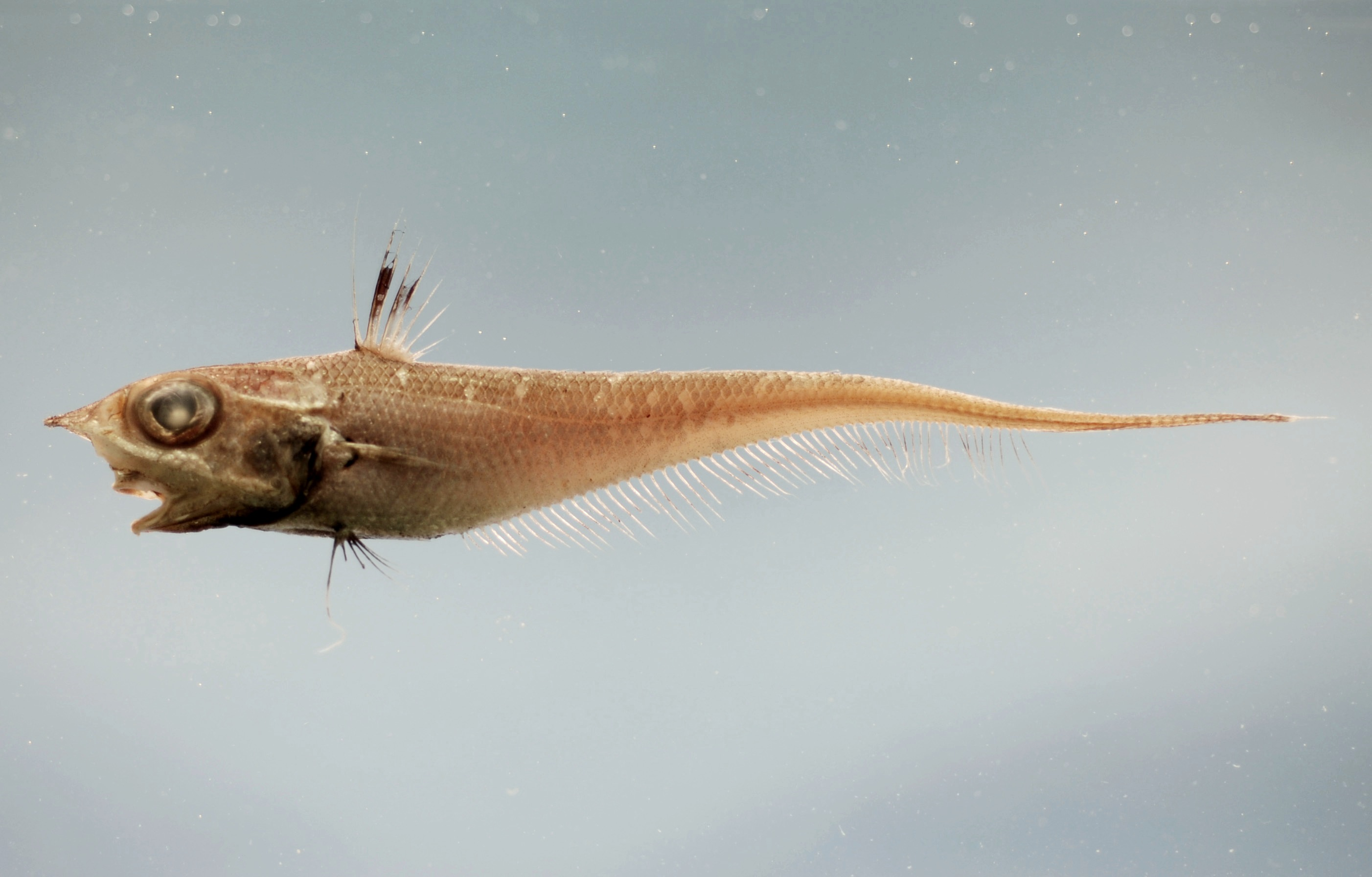 Hollowsnout grenadier or saddled grenadier ( Caelorinchus caelorhincus ). Gulf of Mexico.